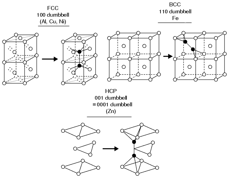 Schematic illustration of some structures of defects in solids.